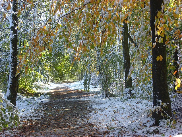 Cowleaze Wood, Lewknor An unusual combination of winter and autumn on the path on the northern edge of the wood.